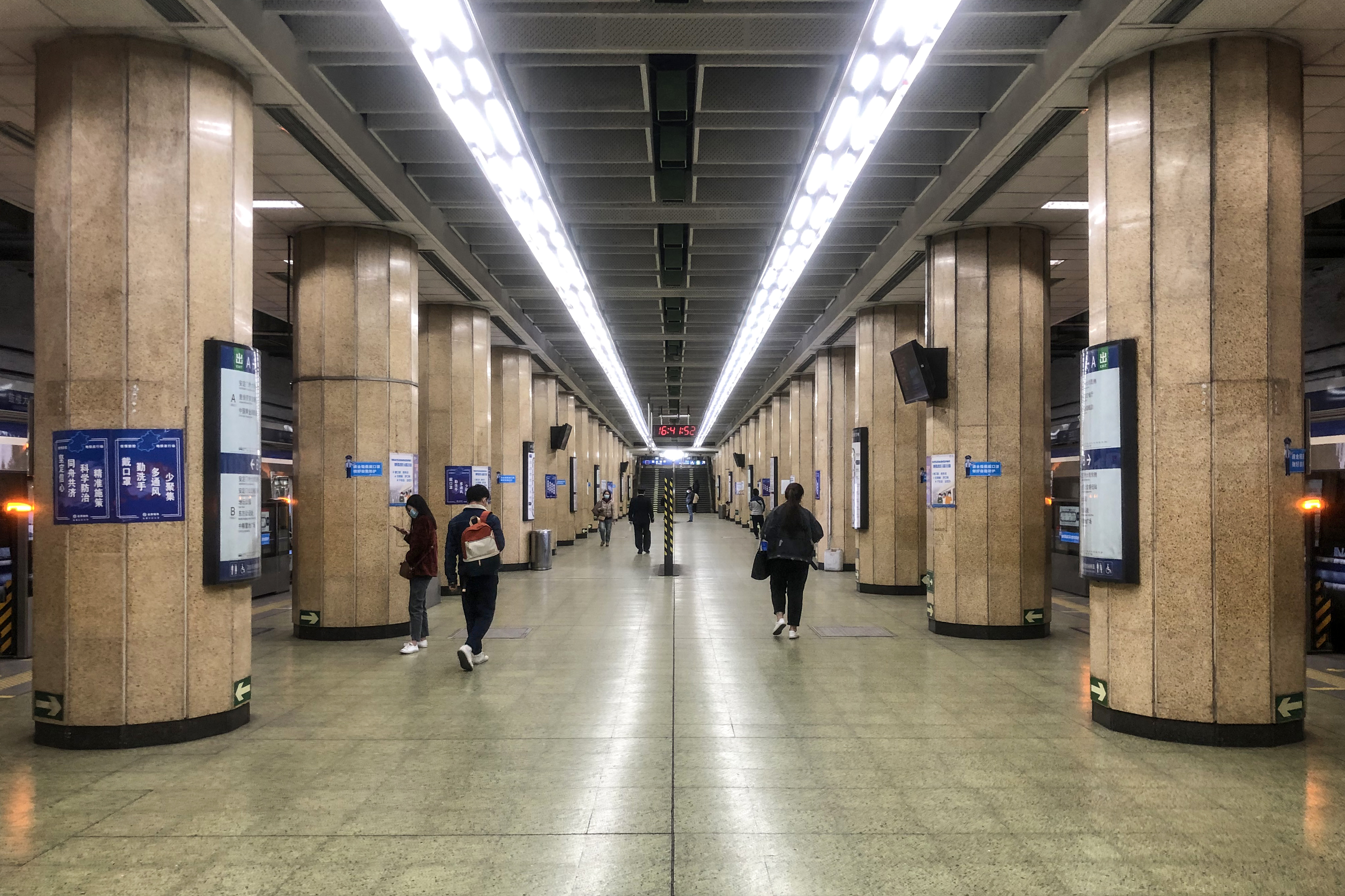 Interchange for BRT3?